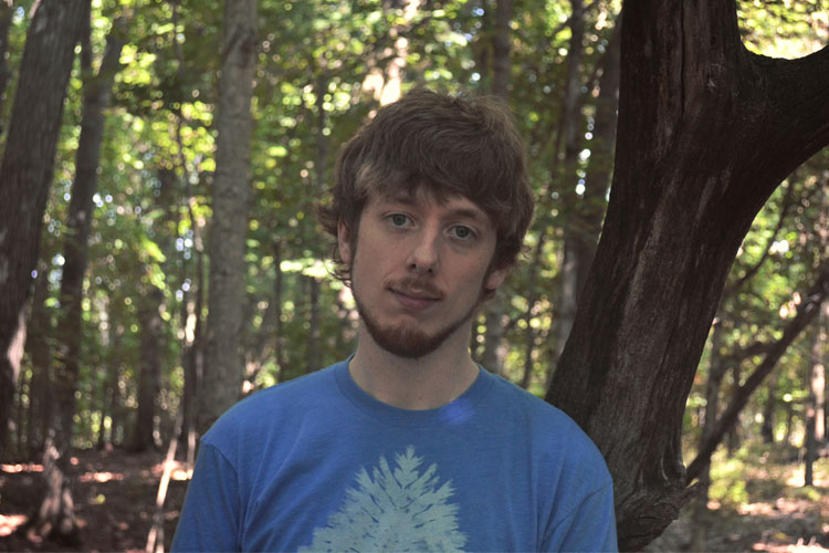 Picture of the game designer Michael Hicks, for use on his Wikipedia page.